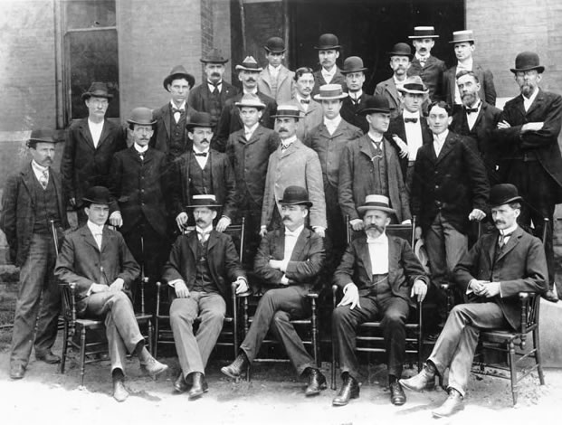 Georgia Tech faculty in 1899. Front Row: Krandle, Matheson, Emerson, Coon, Crenshaw. Others in picture: Edwards, Hall, Wallace, Field Thompson, Van Horten, Branch. Others are unidentified.